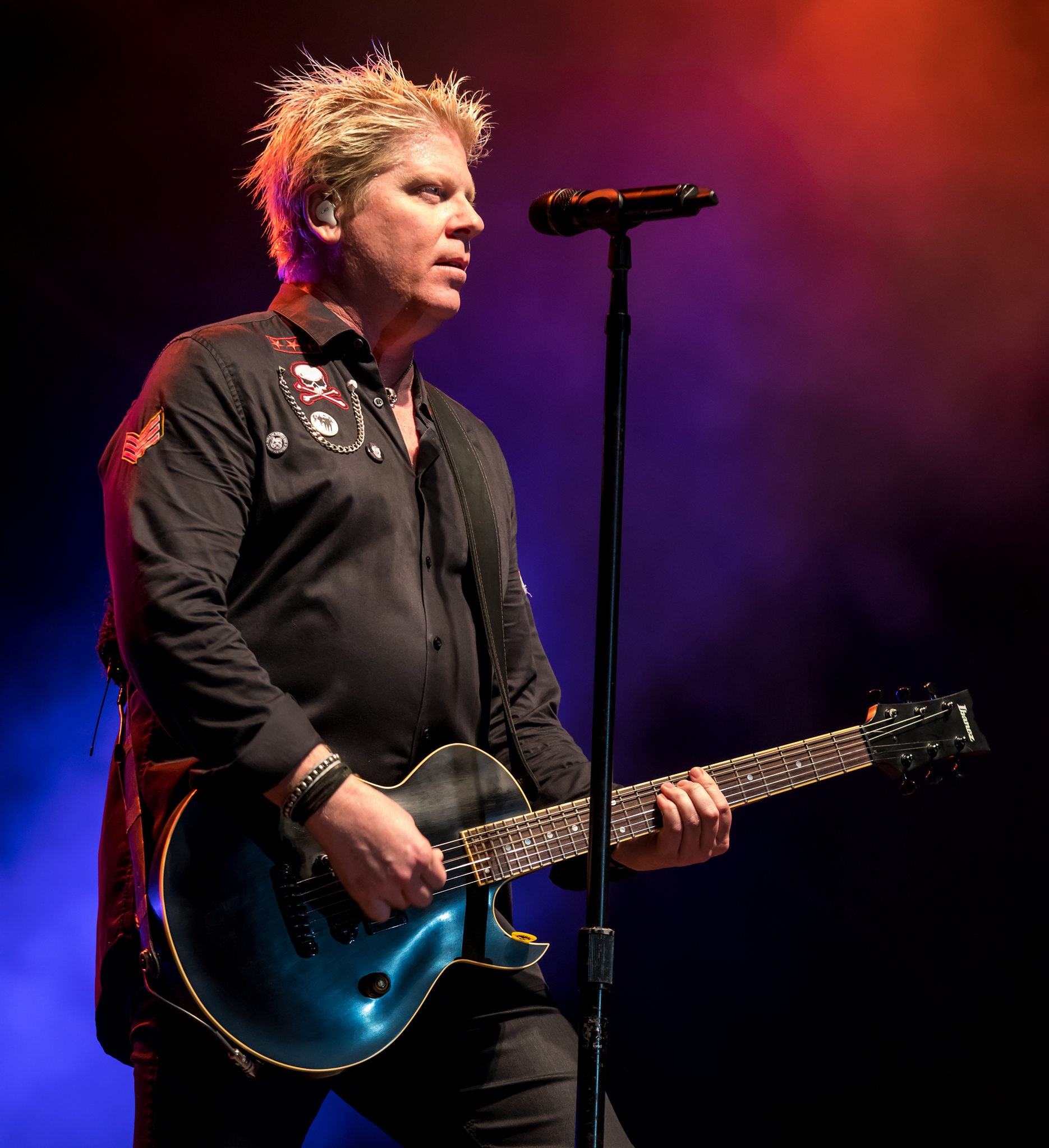 The Offspring performing at River City Rockfest at the AT&T Center in San Antonio, Texas on May 27, 2017.